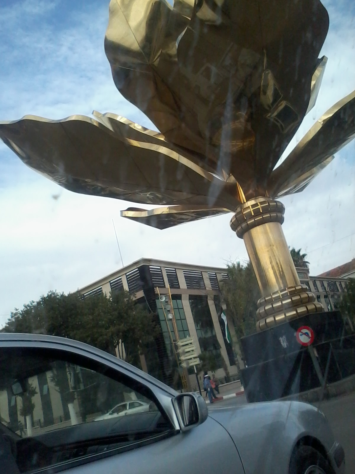 A palm made by bronze in the middle of Sétif -Algeria